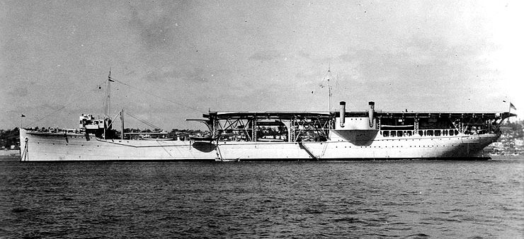 Photo of the first U.S. aircraft carrier USS Langley (CV-1) after conversion into a seaplane tender, designated USS Langley (AV-3), in 1937.